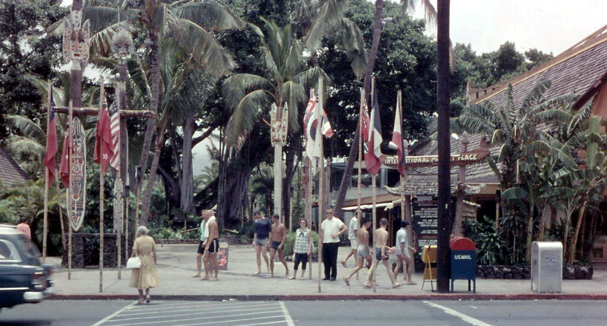 International Marketplace, Honolulu, Hawaii, 1958